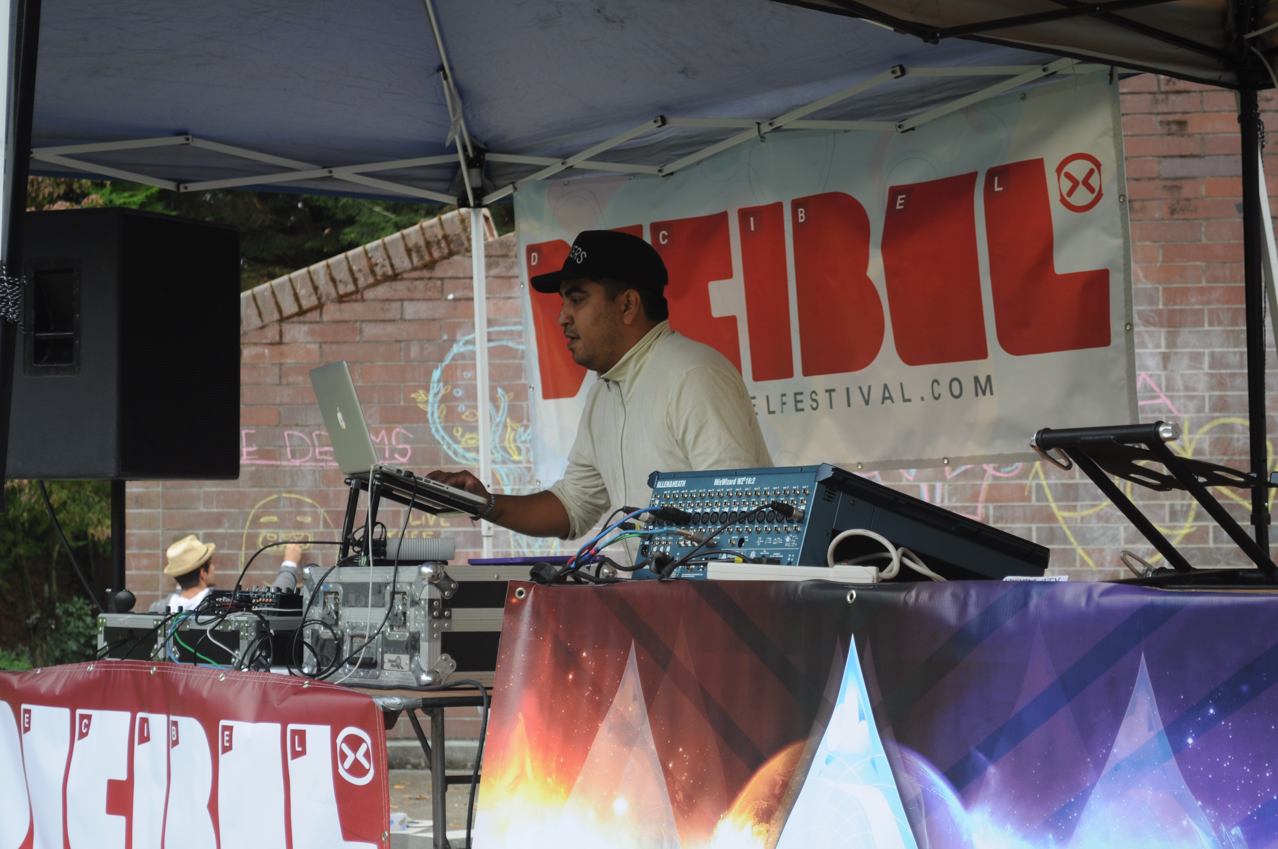 Unidentified DJ performs at Seattle's Volunteer Park as part of Decibel Festival, 2011.